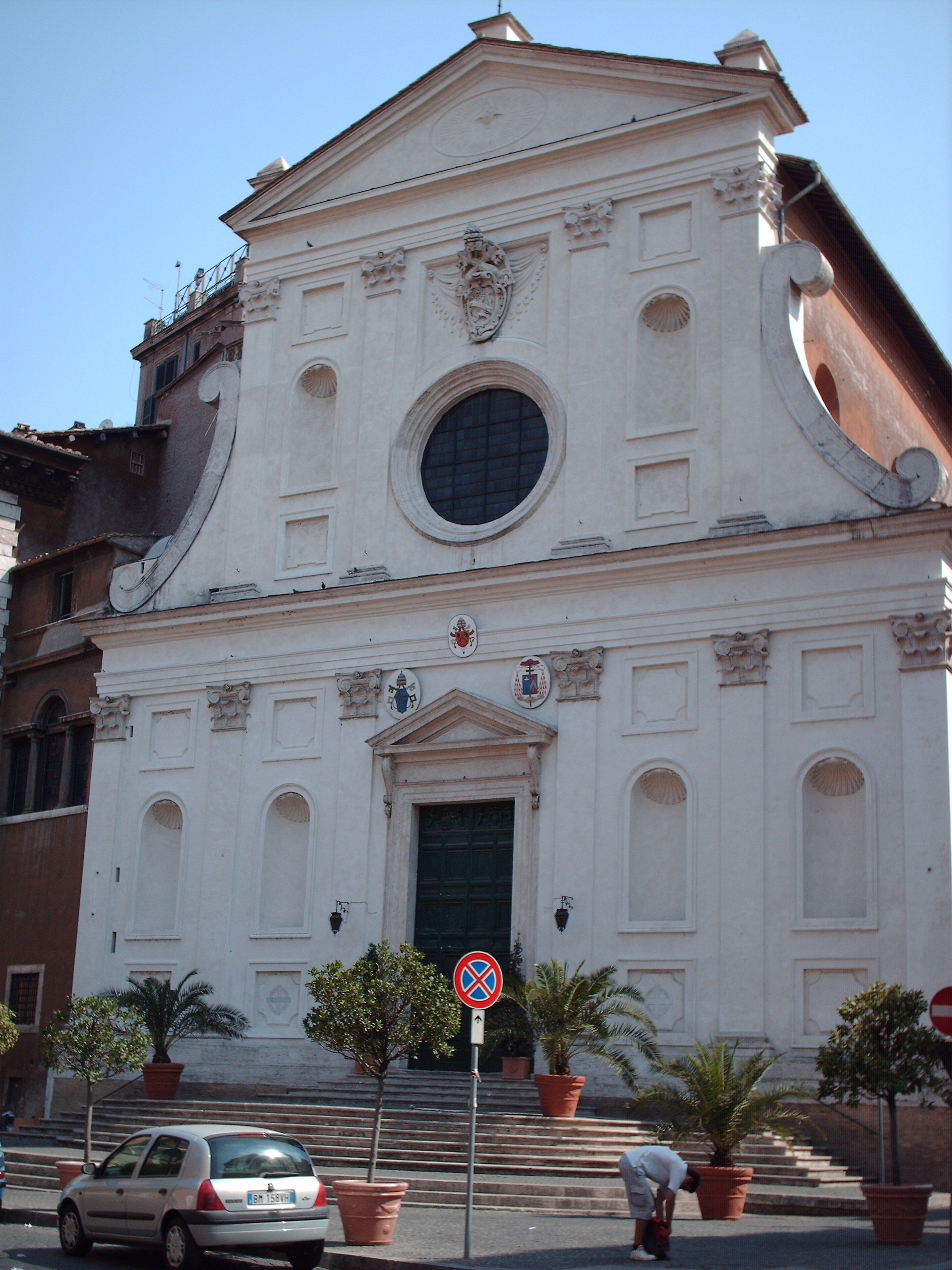 Church of Santo Spirito in Sassia, Rome; titular church